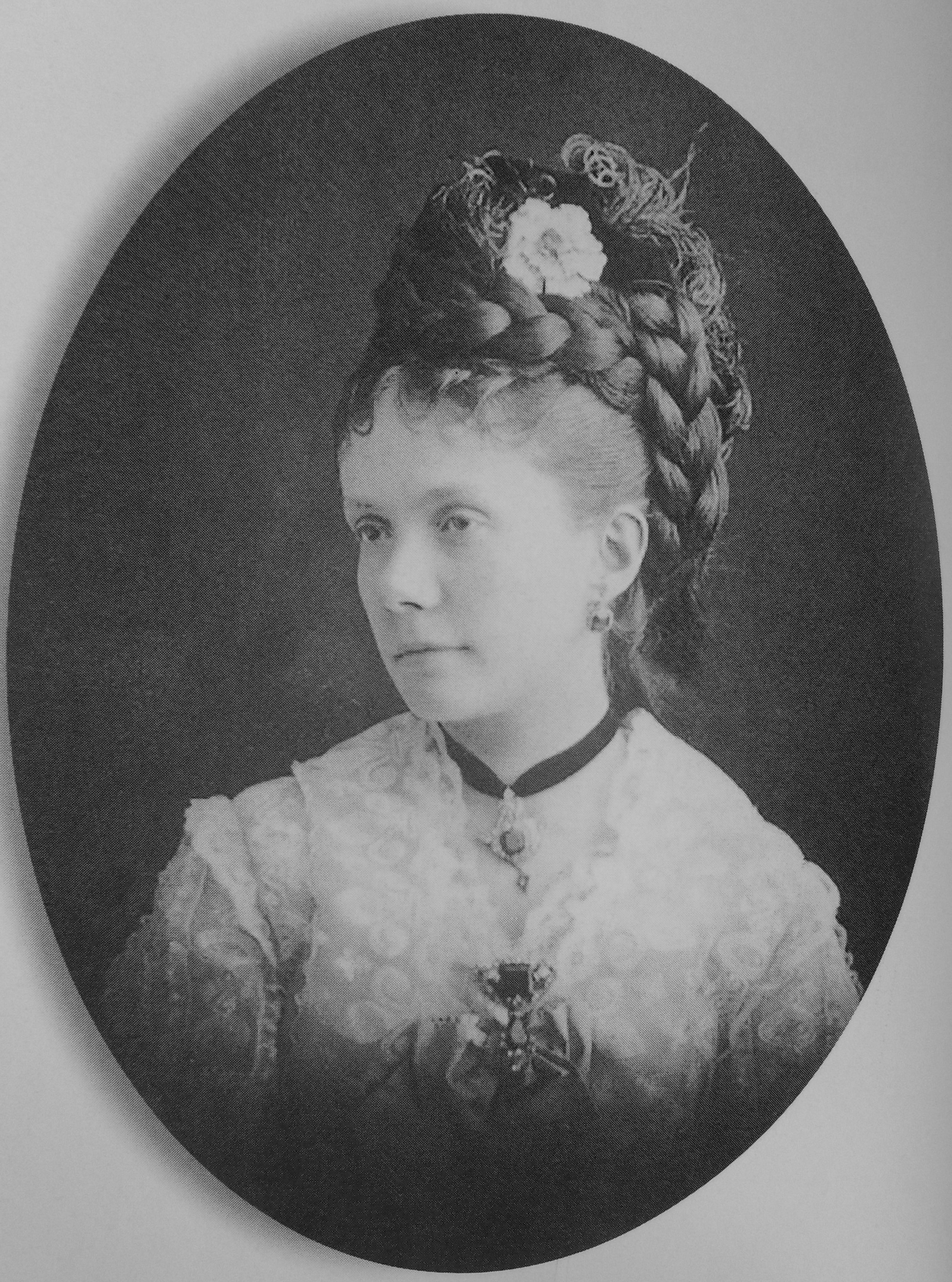 Infanta Isabella of Spain (1851–1931) photo